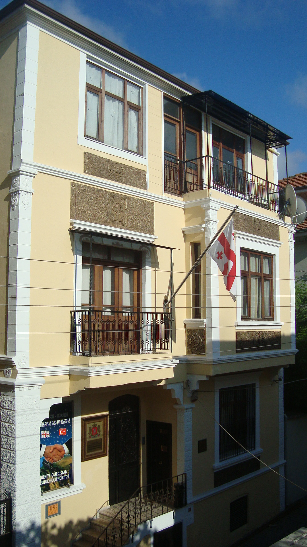 Consulate General of Georgia in Trabzon, Turkey